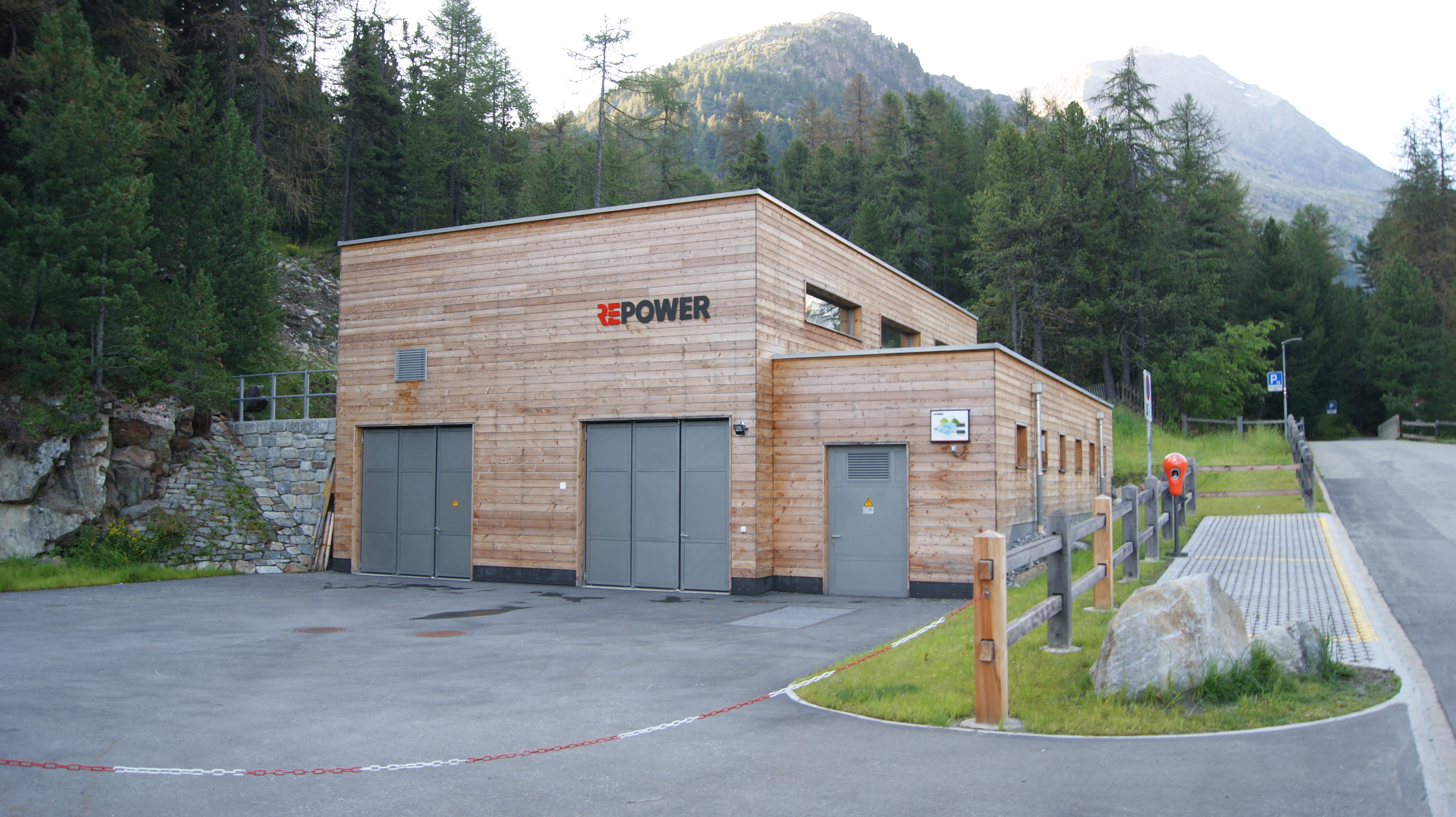 Morteratsch, Pontresina, Grisons, Switzerland. RE power plant.